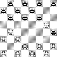 Tabia draughts opening "Косяк с разменом на g5" (Kosyak s razmenom na g5) in russian checkers